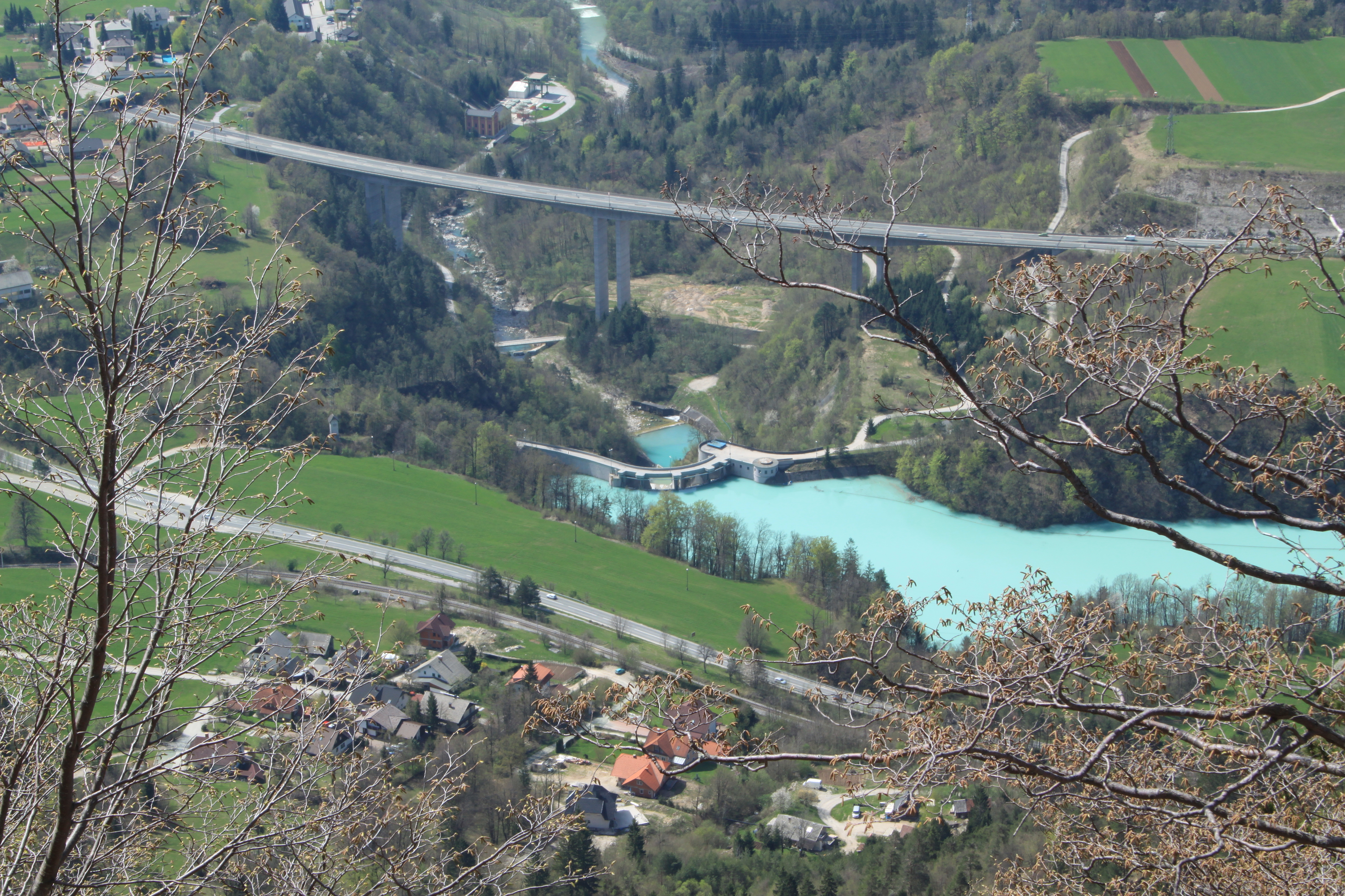 Moste Hydroelectric Power Plant on Sava Dolinka, from Mount Ajdna, Slovenia.